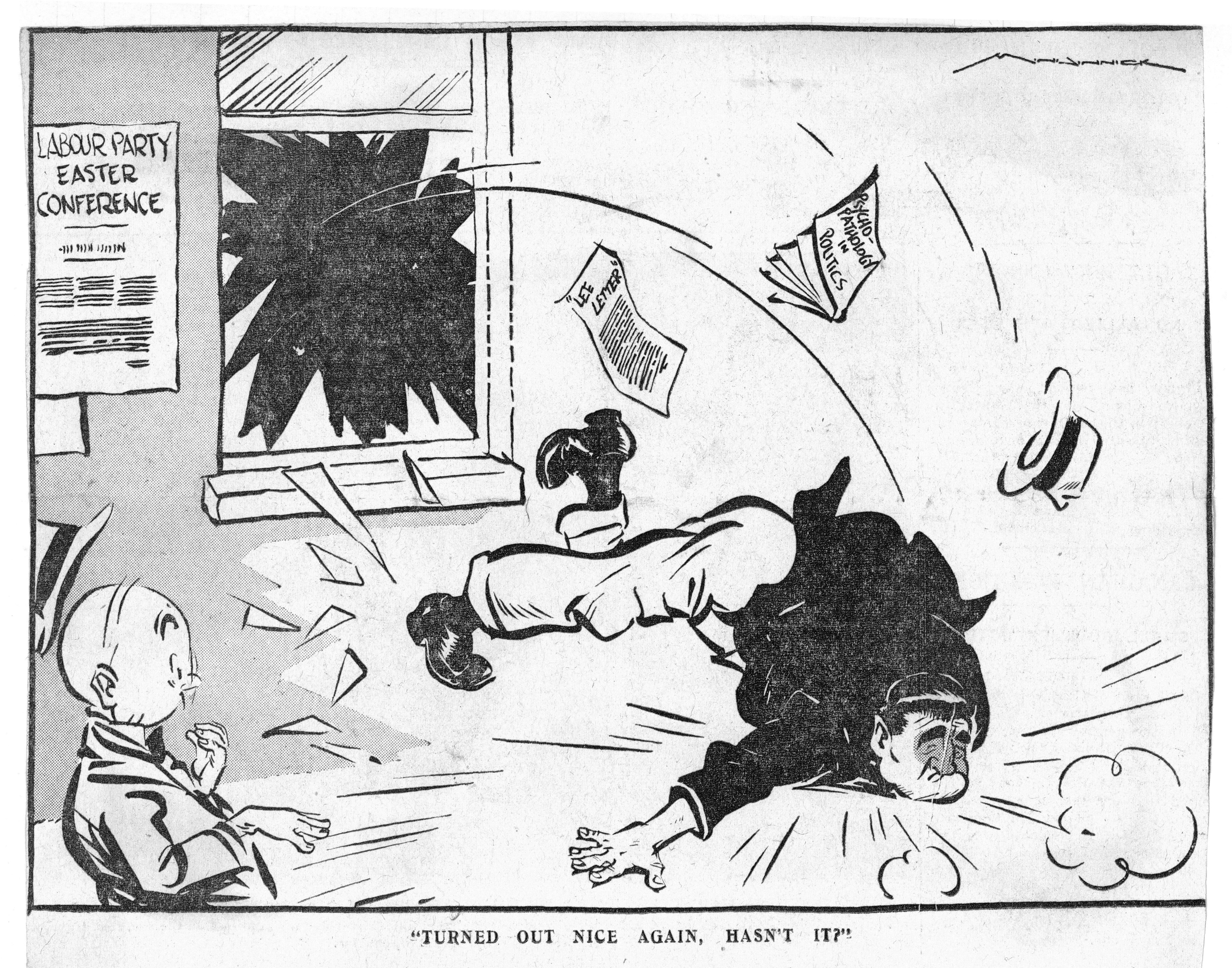 Cartoon shows a man reacting in surprise as New Zealand politician John A Lee is thrown on to the ground through the window of the Labour Party Easter Conference in 1940. Lee's publications ("Lee letter", and "Psycho-pathology in politics") are thrown out with him.